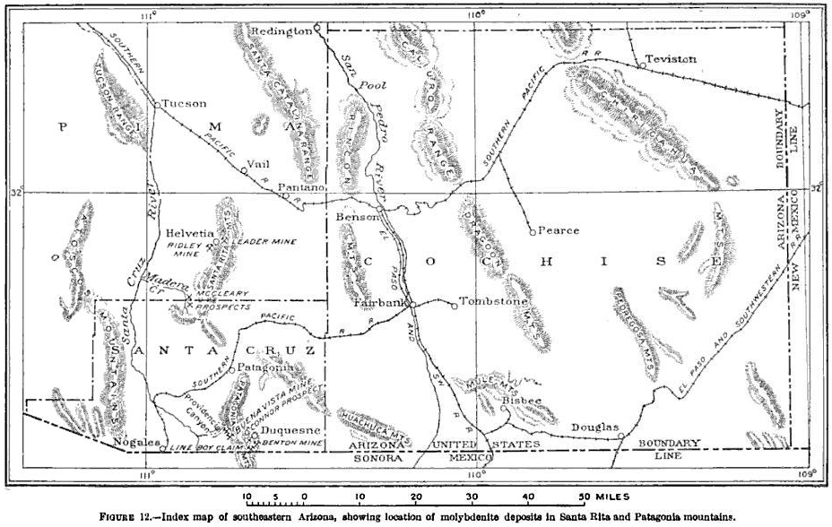 Index map of southeastern Arizona, showing location of molybdenite deposits in Santa Rita and Patagonia Moutains.